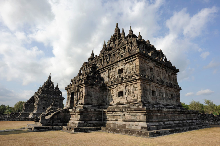 Candi Plaosan, Java